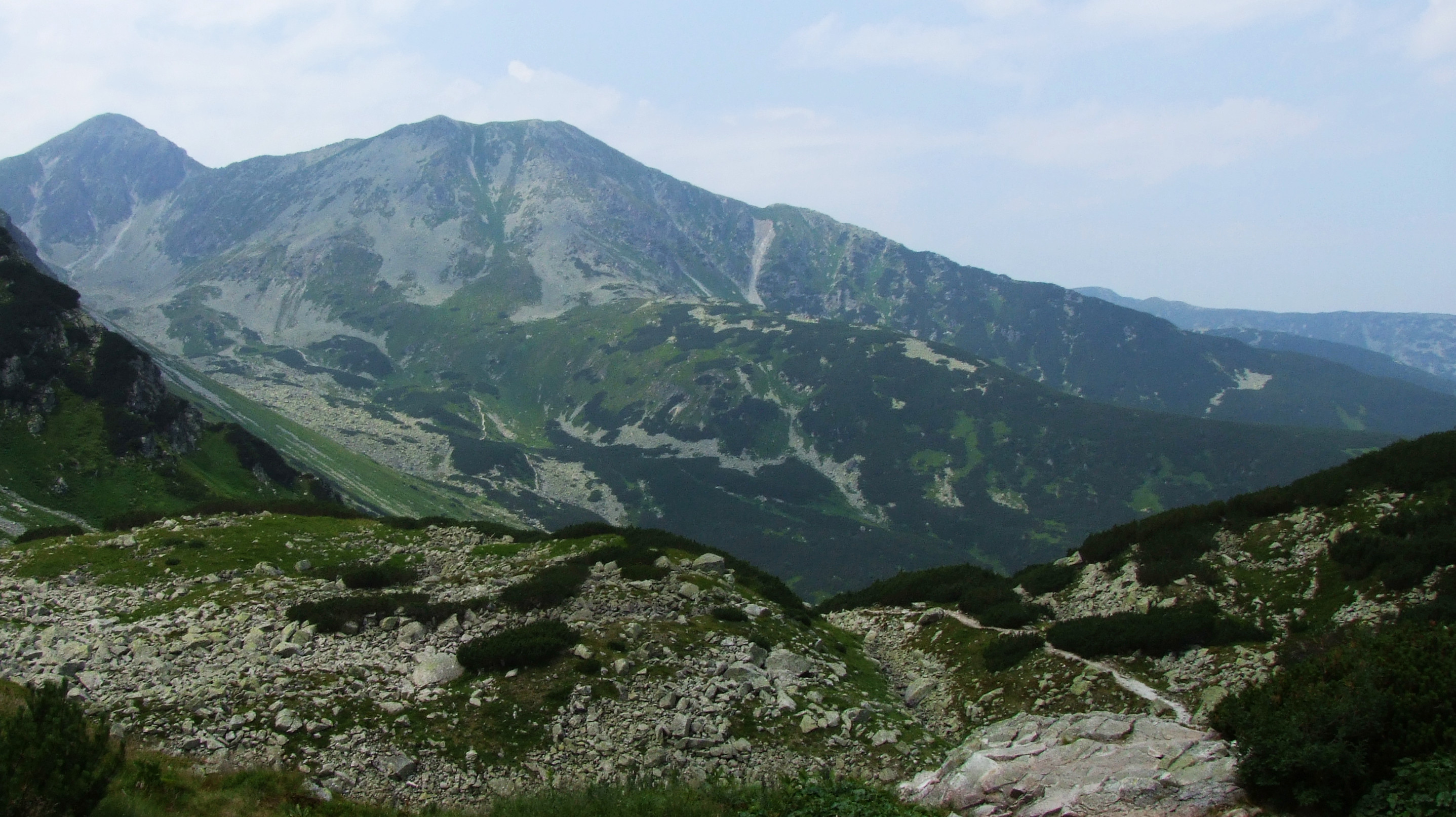 Spalona Dolina, Pachola, Spalona Kopa (West Tatra Mountains)